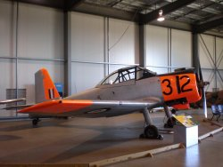 Unaipon 00:10, 21 October 2007 (UTC) (Photographer: Mark Clayton)